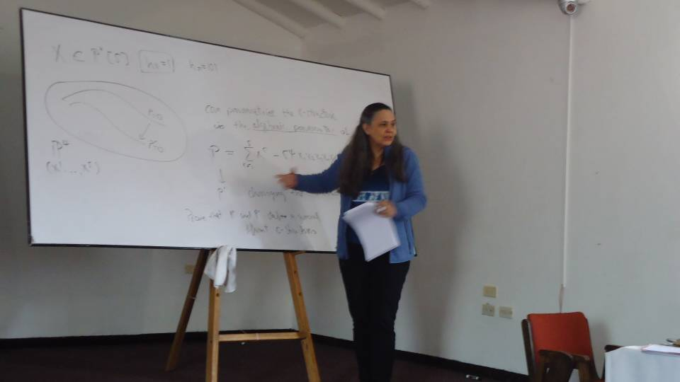 Picture taken during a lecture of professor Xenia de la Ossa at the Geometric, Algebraic and Topological Methods for Quantum Field Theory Villa de Leyva Summer School – 2017.